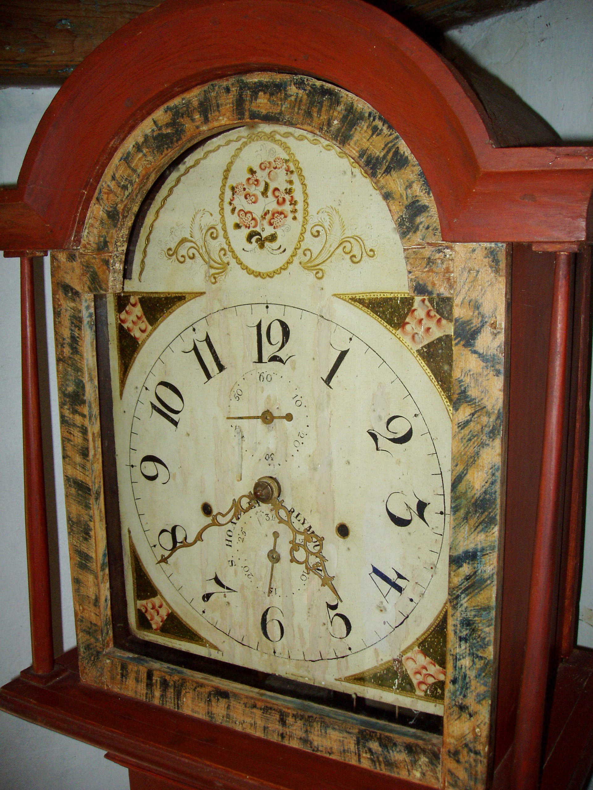 Silas Hoadley clock face, from a grandfather clock located in Colonel John Ashley House, Sheffield, Massachusetts, USA. Manufacture date unknown (between 1820-1849).